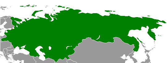 Russian SFSR/Russian DFR in December 1917-January 1918 (after recognition of Finnish independence).